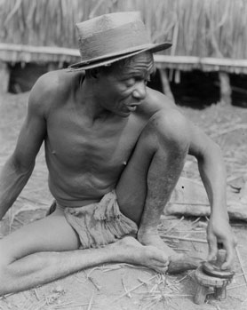 "A man (identified as Windis or Zori, a subject of Gami, a commoner Governor) sitting on the ground within a homestead, his foot resting on the tail of an iwa (rubbing-board) oracle."